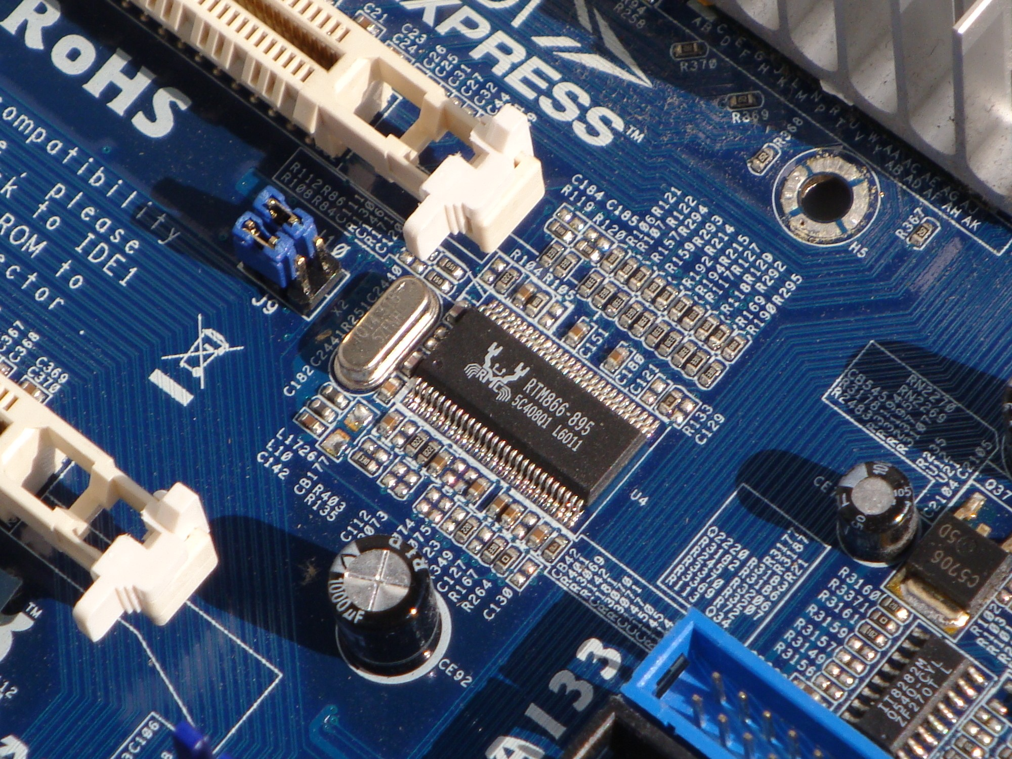 Realtek RTM866-895 PLLIC.中文（台灣）: 瑞昱半導體時脈晶片RTM866-895